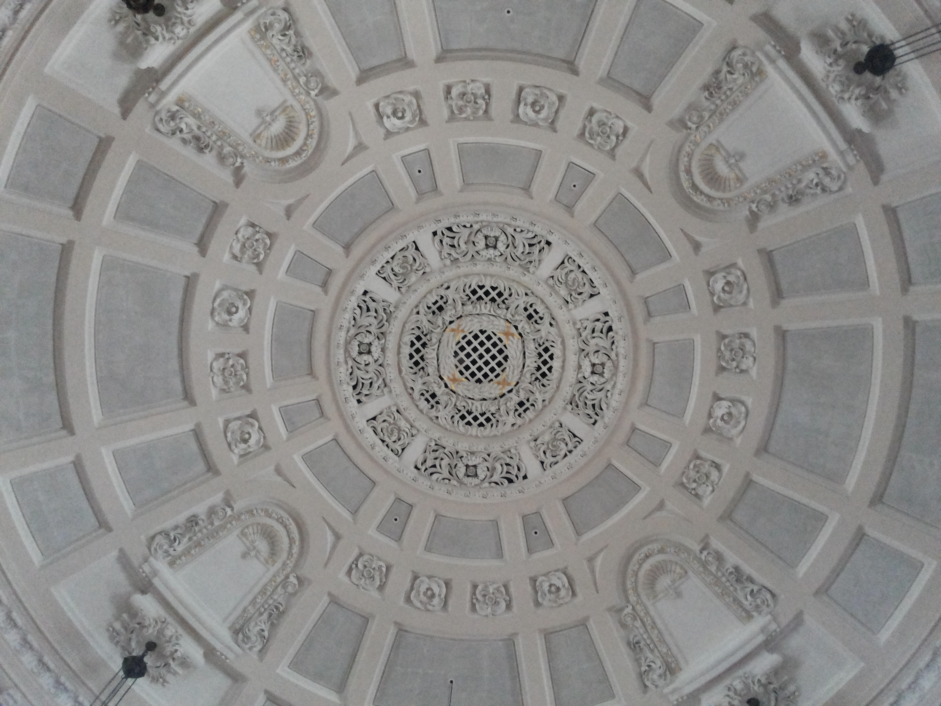 Methodist Central Hall Westminster - Great Hall Dome